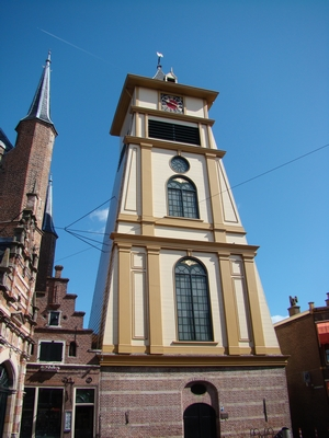 Westerkerk Enkhuizen